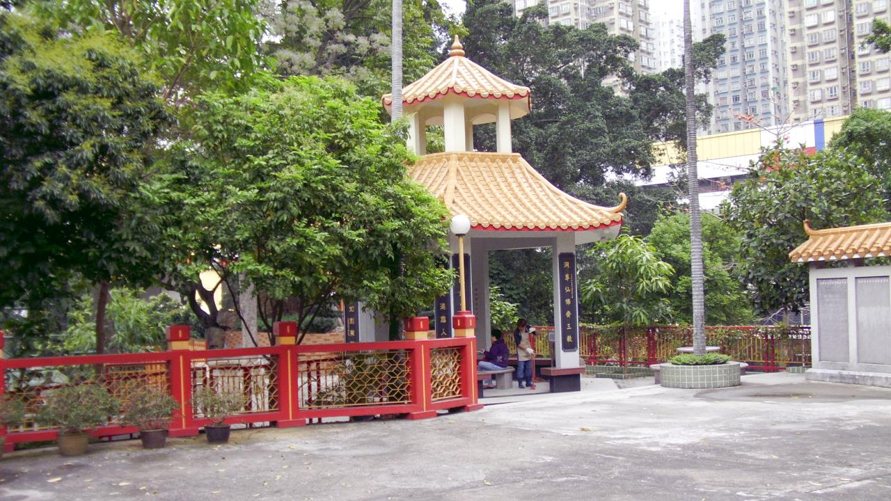 Garden_at_Tuen_Mun_Sin_Hing_Tung 中文（香港）: 香港新界屯門善慶洞花園